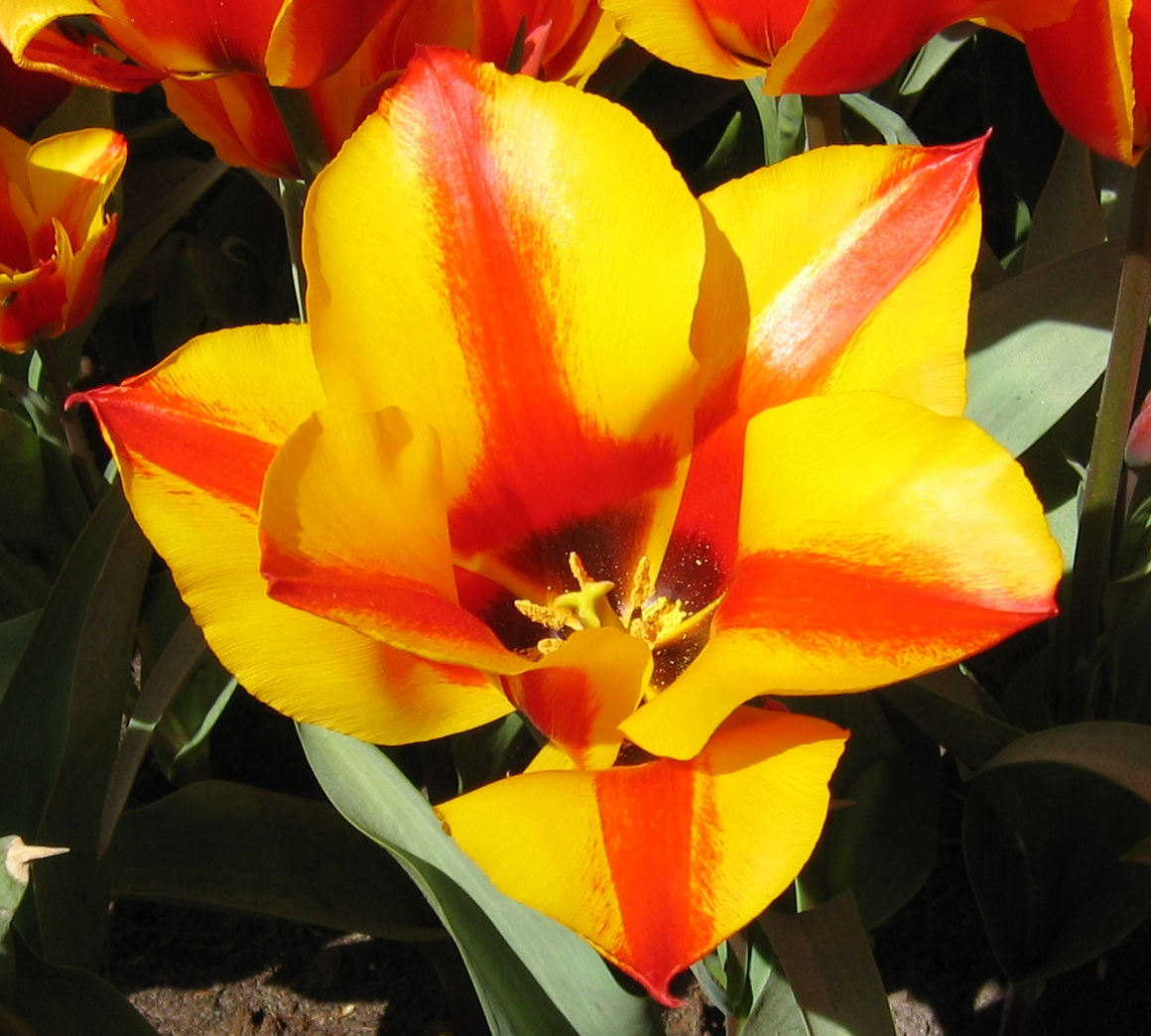 Tulipa greigii 'Engadin'. Taken at Keukenhof, Lisse, the Netherlands.